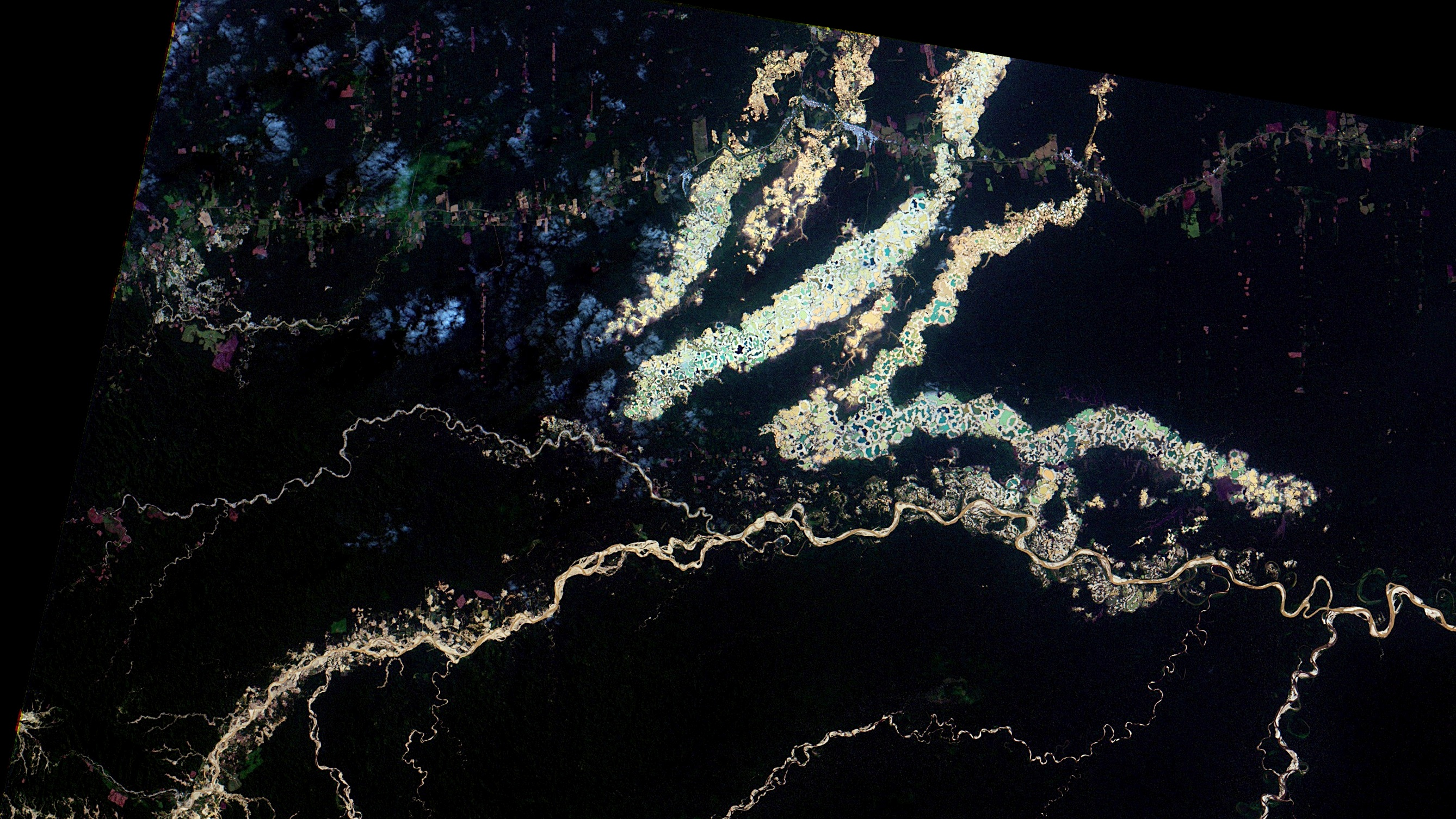 Large scale illegal gold mining at Southern Peruvian Amazon, at Madre de Dios, two days ago. Mining happens at Tambopata National Reserve buffer zone, S of Malinowski River, running at image bottom from W to E. Forest appears in black in this stretch made to highlight mining pits, with their yellow exposed soil. Water surface in several colors, from black when clear to blueish/greenish when with suspended sediments and/or eutrophic. Interoceanic Road 30C, runs at image top, along several deforested plots meant for local consumption cattle ranching, in light green and redish brown.